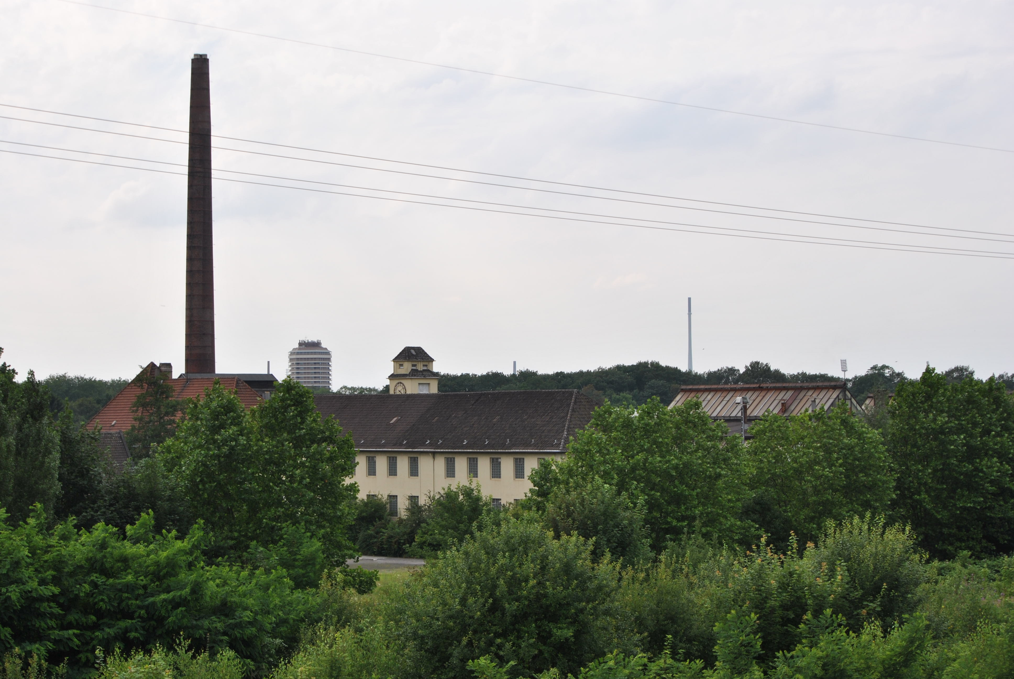 This photograph was taken with a Nikon D3000 This image shows a heritage building in Germany, located in the North Rhine-Westphalian city Duisburg. Ausbesserungswerk Wedau von der Wedauer Bruecke aus gesehen - Denkmalliste Duisburg, Nr. 591 - Koordinaten: 51.23'58.9"N, 6.48'6.3"E, Blickrichtung 28